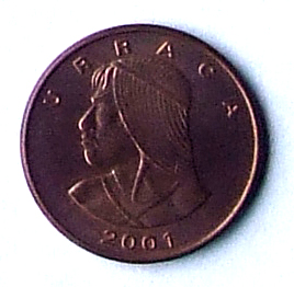 1 cent of balboa